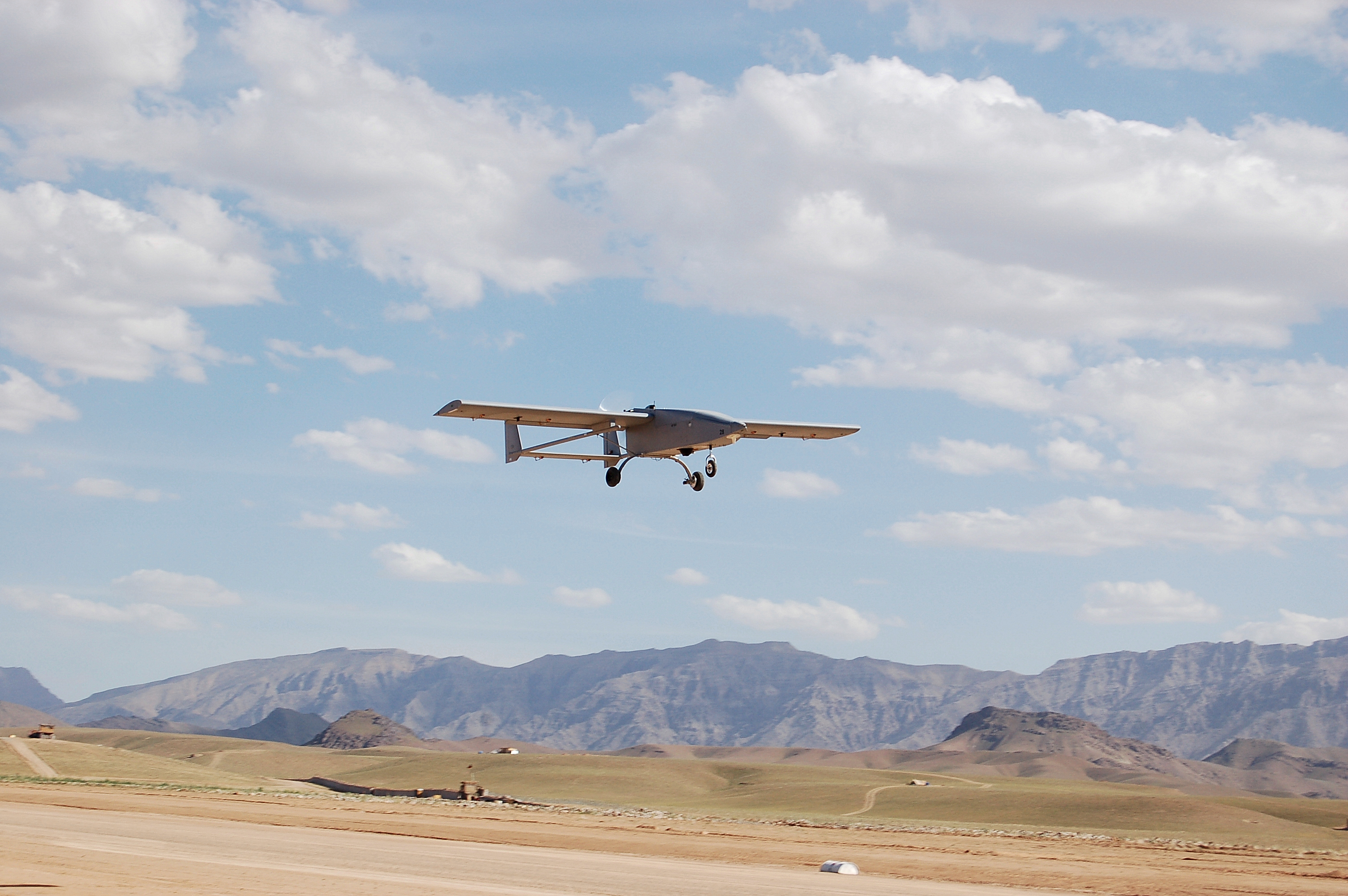 U.S. CENTRAL COMMAND (June 4, 2011) A Tiger Shark unmanned aerial vehicle returns from a mission supporting forces in theater. The Tiger Shark UAV is the result of a rapid deployment effort by the Naval Air Systems Command special surveillance program (SSP) to fulfill urgent operational needs. SSP delivered Tiger Shark to theater in seven months, and since 2006, has logged more than 20,000 flight hours on more than 4,000 missions. (U.S. Navy photo/Released)